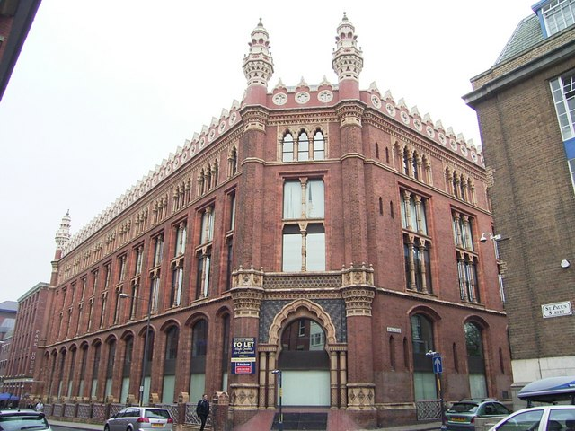 St Paul's House, Park Square, Leeds, England: warehouse designed by Thomas Ambler for John Barran 1878, now offices